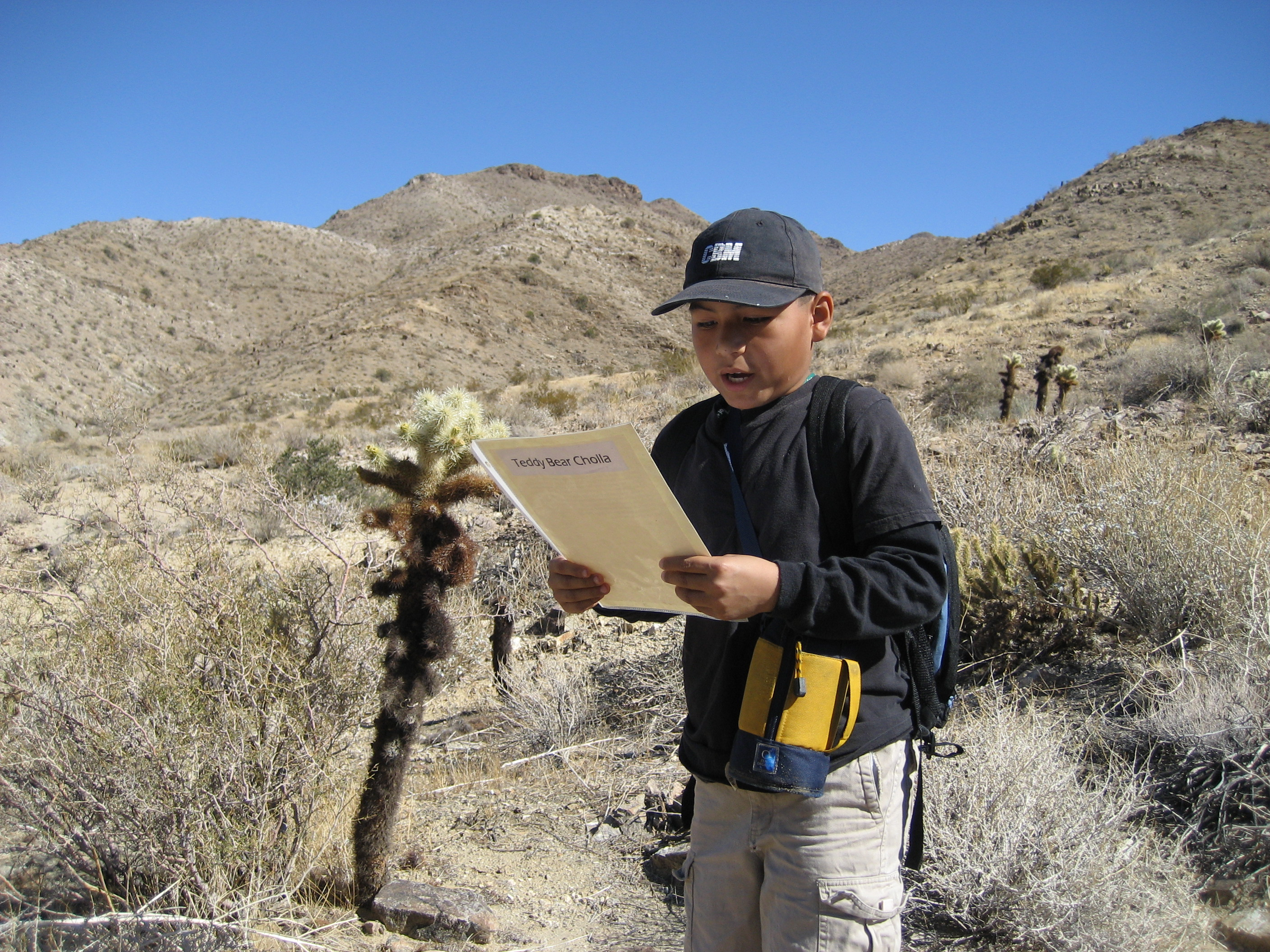 Rising abruptly from the desert floor, the Santa Rosa and San Jacinto Mountains National Monument in California reaches an elevation of 10,834 feet at the summit of Mount San Jacinto. Providing a picturesque backdrop to local communities, the National Monument significantly contributes to the Coachella Valley's lure as a popular resort and retirement community. It is also a desirable backcountry destination that can be accessed via trails from both the valley floor and the alpine village of Idyllwild. Learn more about the monument and plan your visit